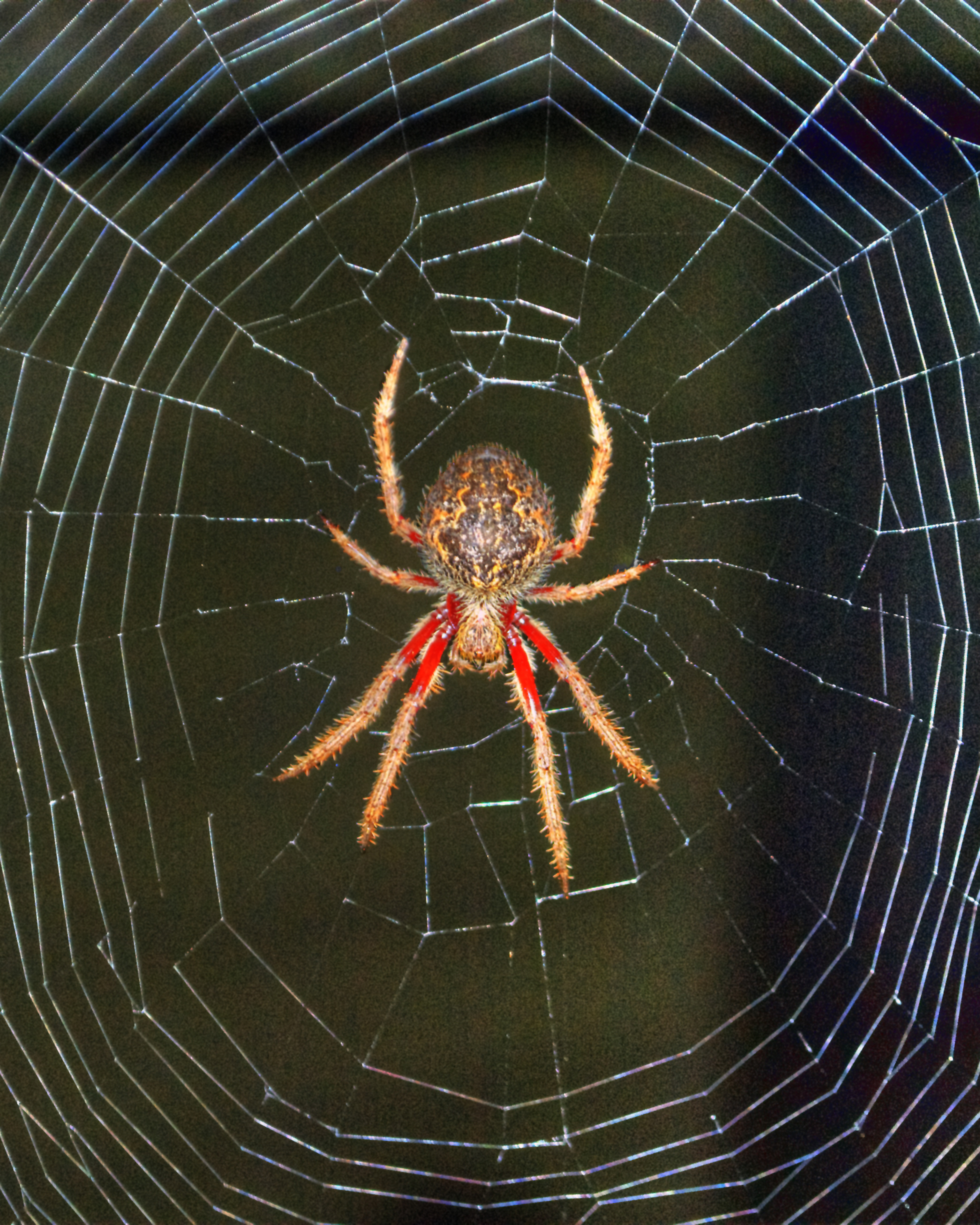 Dorsal view of an Australian Orb Weaver Spider (Eriophora Transmarina).